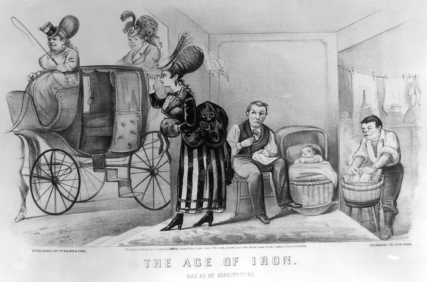 "The Age of Iron. Man as he Expects to be", an 1869 lithograph print published by Currier and Ives (152 Nassau St., New York). This is a satirical anti-feminist caricature of a wife going out for an evening, leaving her husband to look after the baby at home and sew. The gender-role reversal extends to the servants, where the carriage-driving servants are female, while the one washing clothes is male (the opposite of the usual situation of the time). Bibliographic information at LoC: TITLE: The age of iron: Man as he expects to be CALL NUMBER: PGA - Currier & Ives--Age of iron: (A size) [P&P] REPRODUCTION NUMBER: LC-USZC2-1922 (color film copy slide) LC-USZ62-701 (b&w film copy neg.) SUMMARY: Husband sitting by a child in a cradle and sewing as a male servant does laundry. A well-dressed woman prepares to get into a carriage driven by another woman. MEDIUM: 1 print : lithograph. CREATED/PUBLISHED: [New York] : Currier & Ives, 1869. CREATOR: Currier & Ives. NOTES: Currier & Ives : a catalogue raisonné / compiled by Gale Research. Detroit, MI : Gale Research, c1983, no. 0068. Published in: American women : a Library of Congress guide for the study of women's history and culture in the United States / edited by Sheridan Harvey ... [et al.]. Washington : Library of Congress, 2001, p. 379. SUBJECTS: Housework--1860-1870. Relations between the sexes--1860-1870. Men--Domestic life--1860-1870. Women--Domestic life--1860-1870. FORMAT: Lithographs 1860-1870. REPOSITORY: Library of Congress Prints and Photographs Division Washington, D.C. DIGITAL ID: (color film copy slide) cph 3b49805 (b&w film copy neg) cph 3a04617 CARD #: 90708467